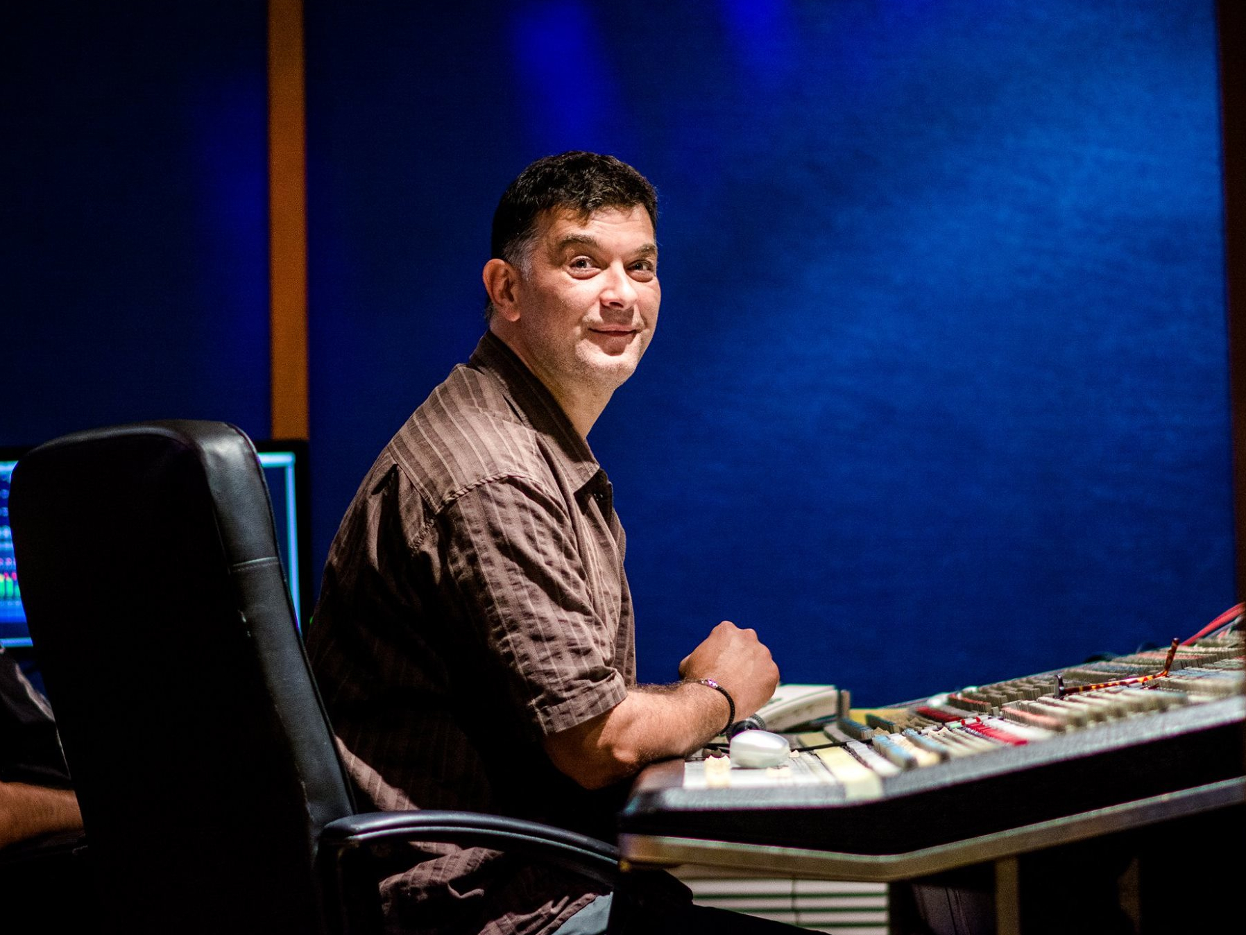 Dragi Sestic